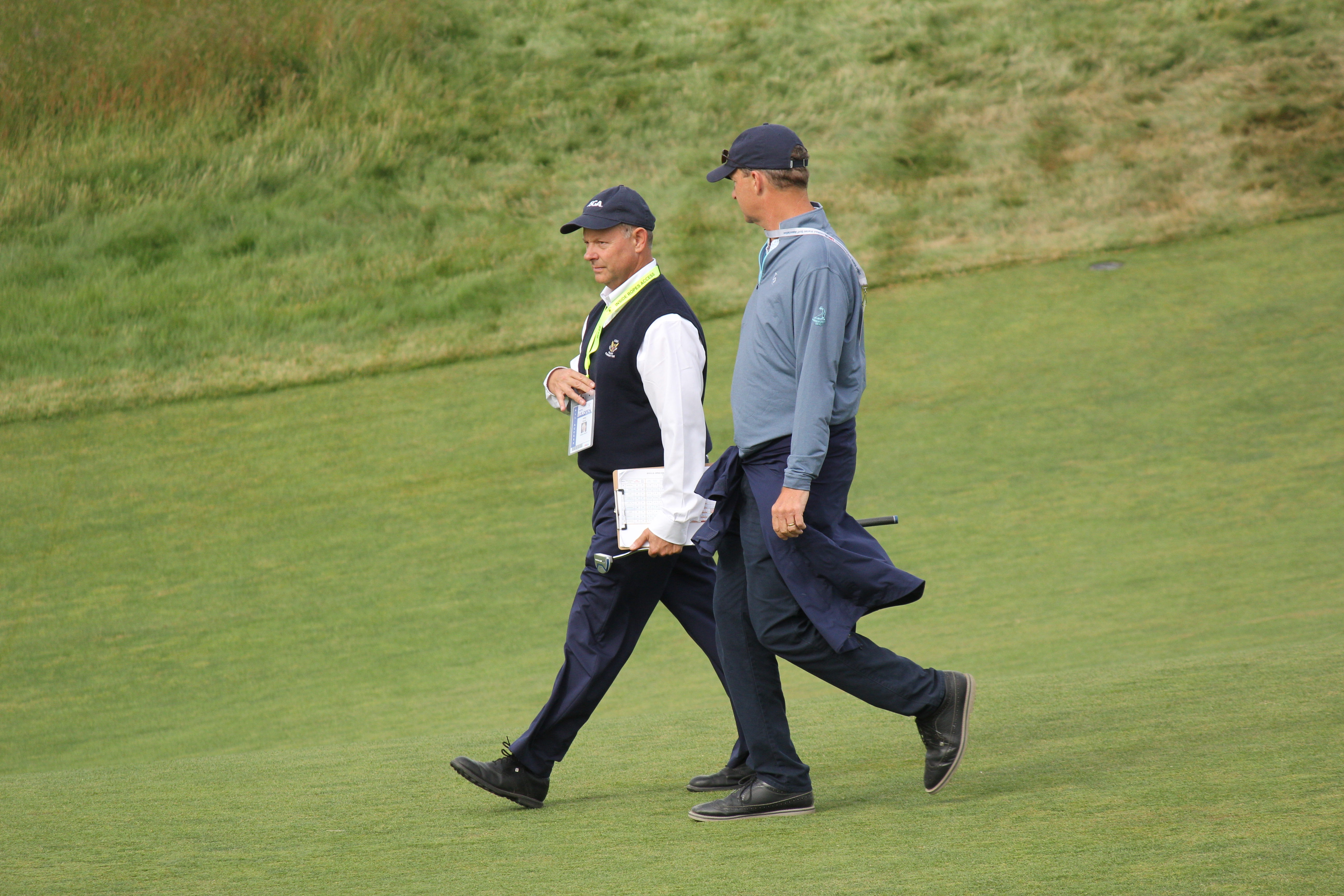 Mike Davis of the USGA walks down the 18th fairway of Shinnecock Hills Golf Club